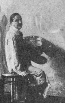 Photograph of Romanian Art Nouveau and Symbolist painter Kimon Loghi, as published in the magazine Luceafărul, 1/1914.